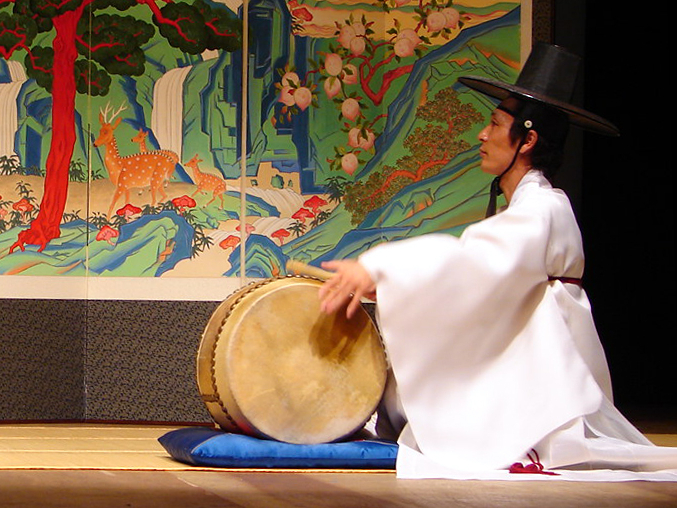 Pansori performance at the Busan Cultural Center in Busan South Korea